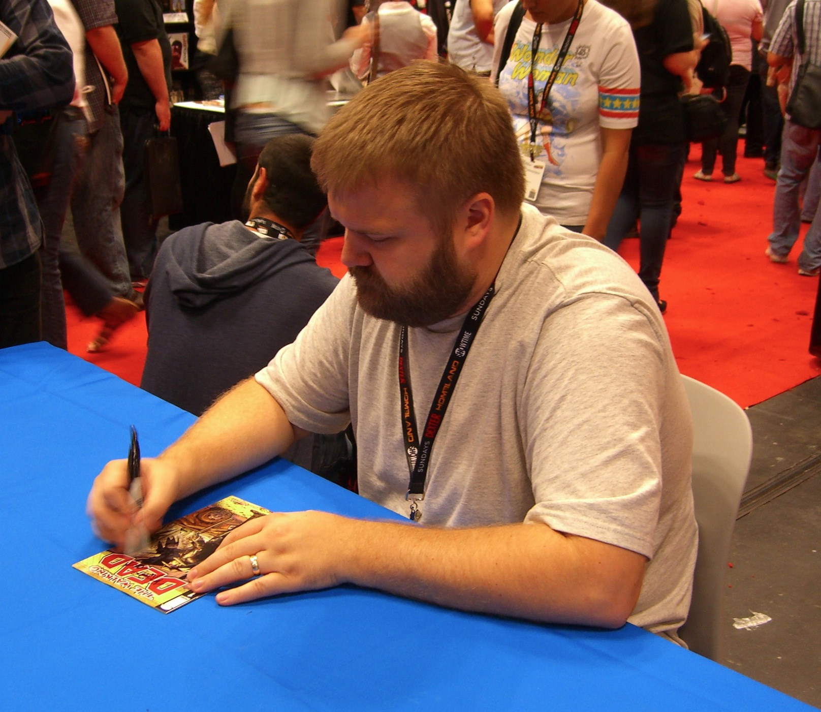 Comic book creator Robert Kirkman signing books and memorabilia for fans at the 2011 New York Comic Con, October 14, 2011. This photo was created by Luigi Novi. It is not in the public domain, and use of this file outside of the licensing terms is a copyright violation.